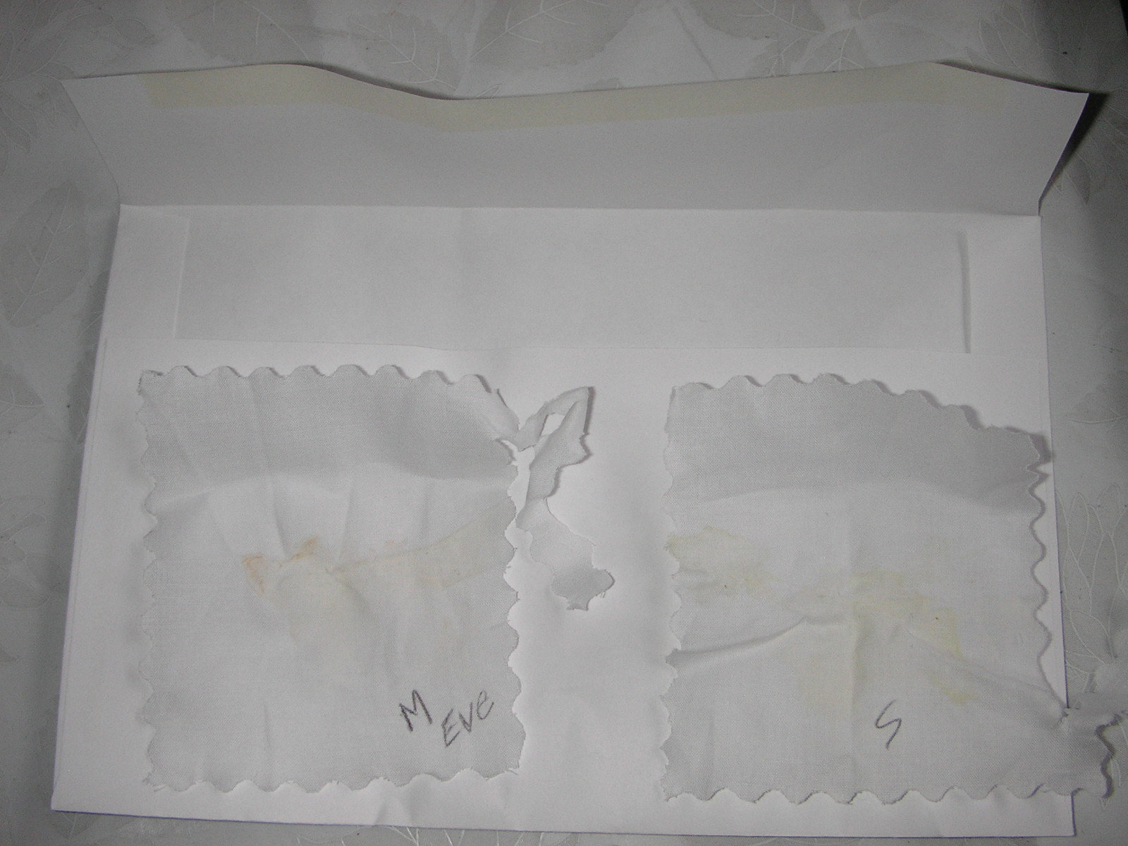 fifth day "moch duchuk" and subsequent bedikah example